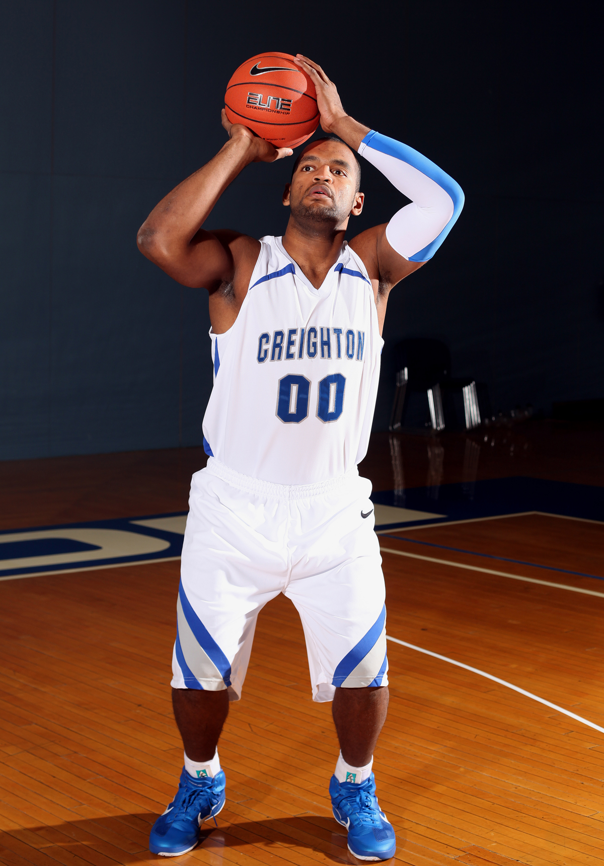 Buen jugador